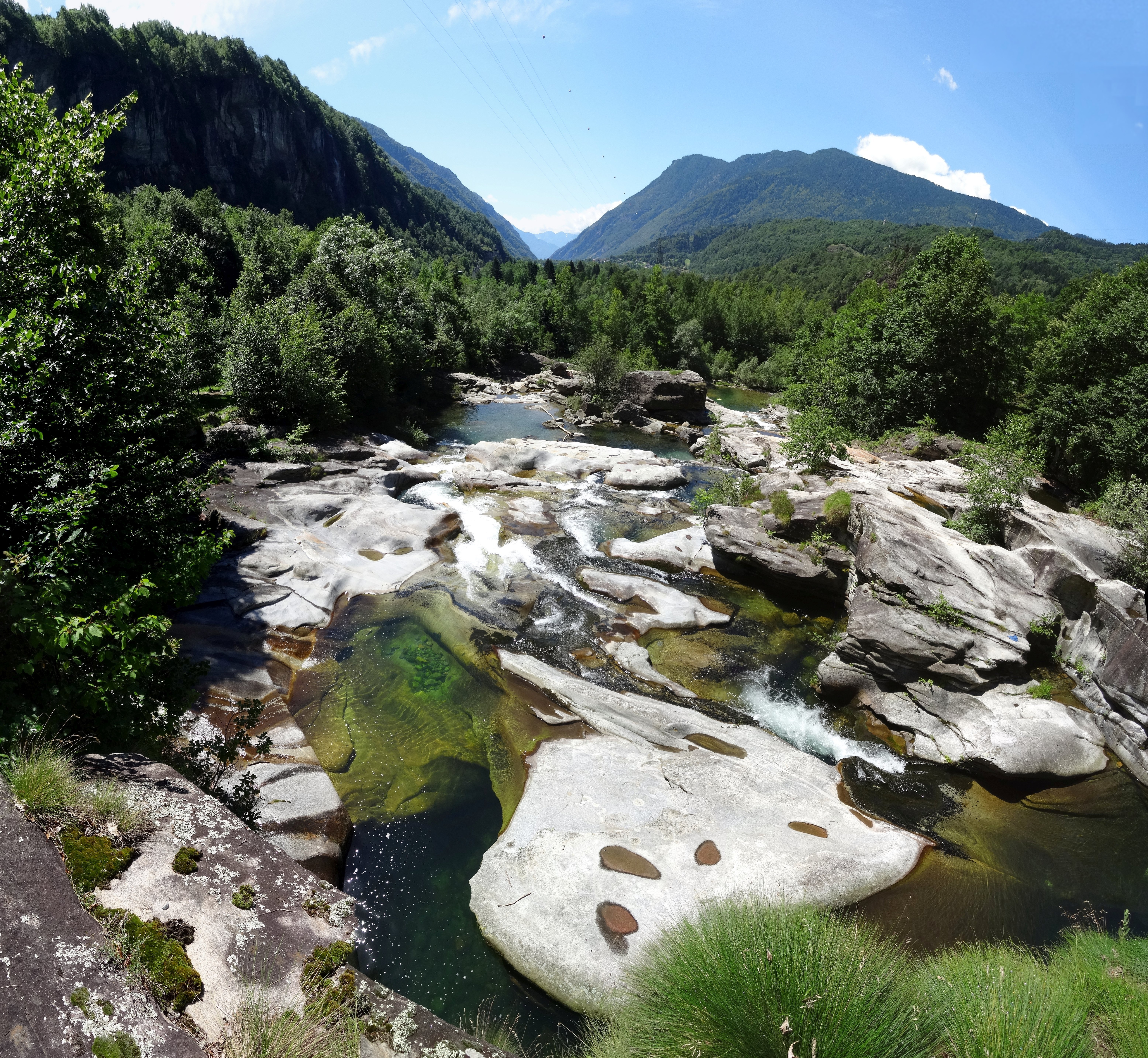 Panorama Marmitte dei Giganti, View to the south